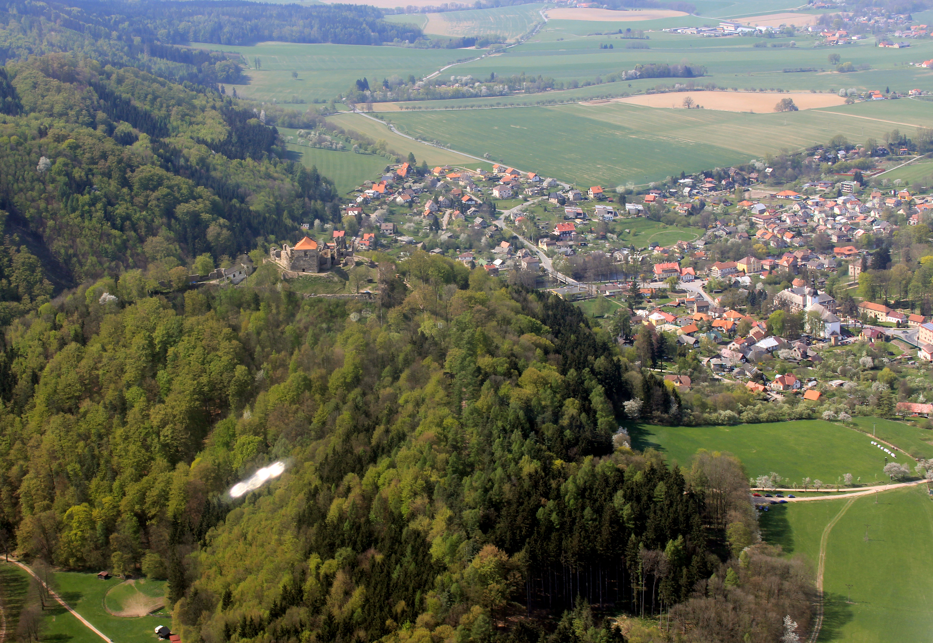 Village Potštejn with castle Potštejn from air, eastern Bohemia, Czech Republic